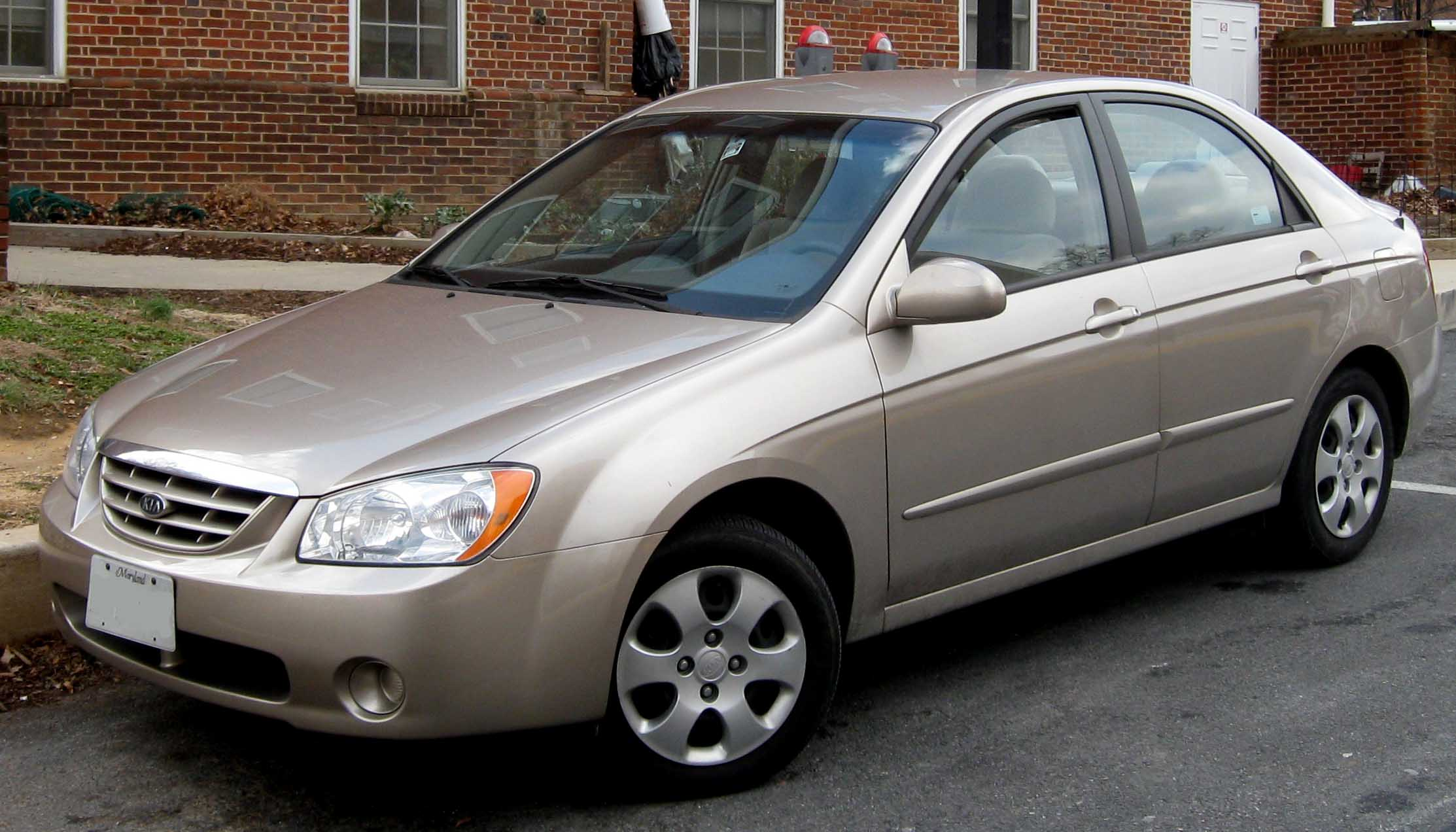 2004-2006 Kia Spectra photographed in College Park, Maryland, USA.